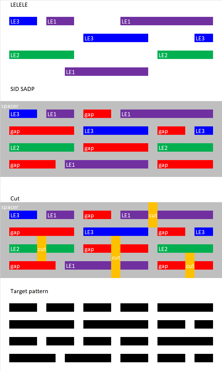 Top: When two features must maintain a minimum distance, they may need to be split up onto different masks (indicated by different colors). Center: By applying self-aligned patterning with a spacer (not shown), fewer masks can be used. Moreover, the leftover gap between spacers may pattern additional features. Bottom: A cut mask uses an opposite polarity feature to separate features that were previously part of one shape.